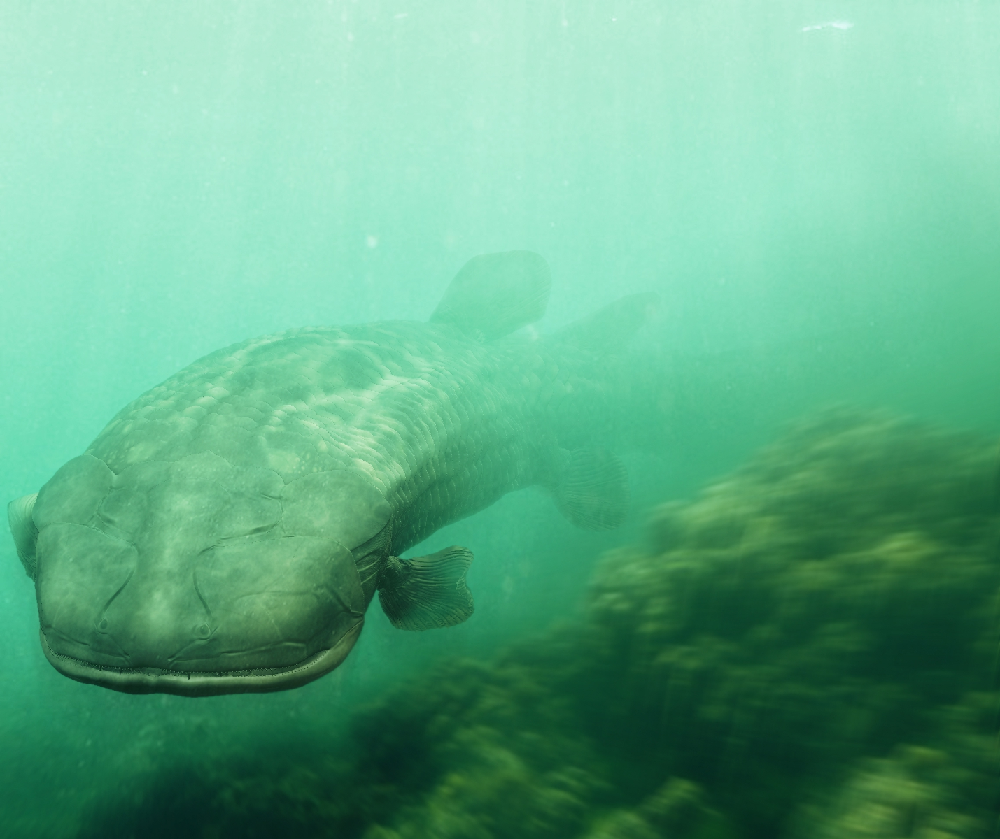 Reconstruction of Laccognathus panderi